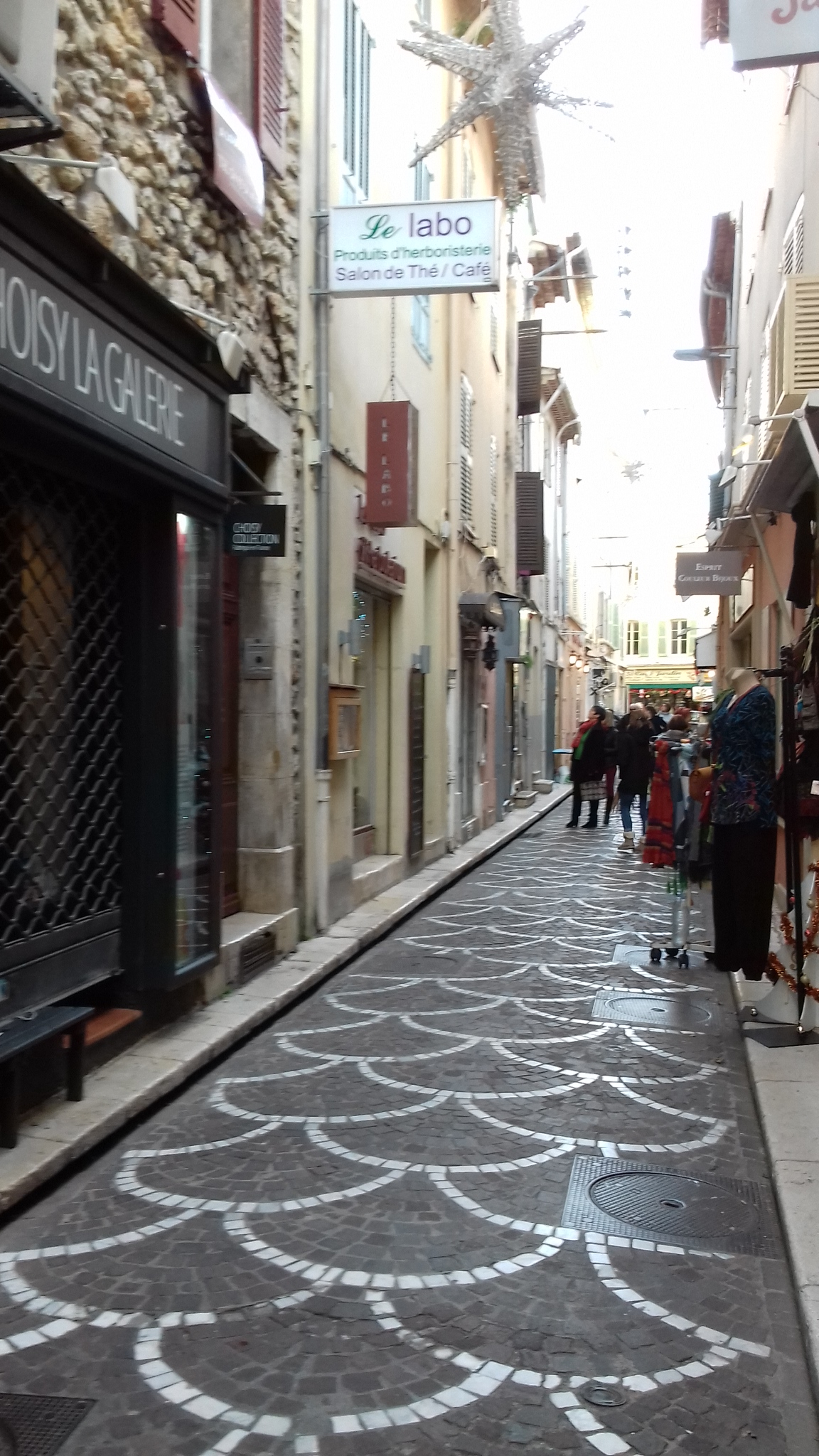 Rue James Close, Antibes